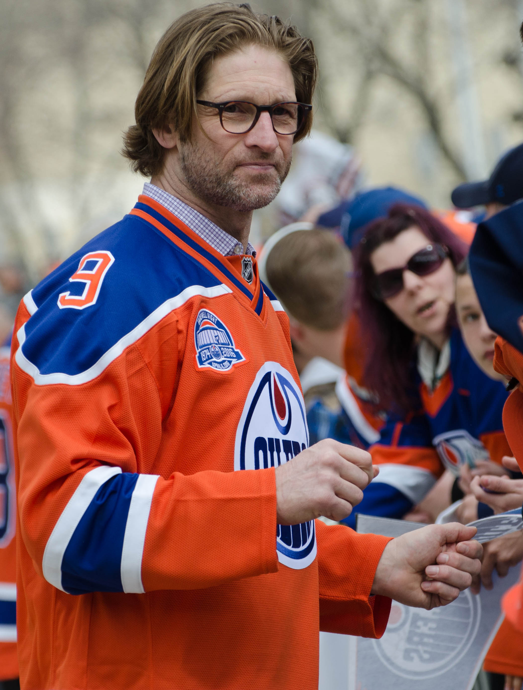 Shayne Corson in 2016. Please credit Connor Mah for use elsewhere.